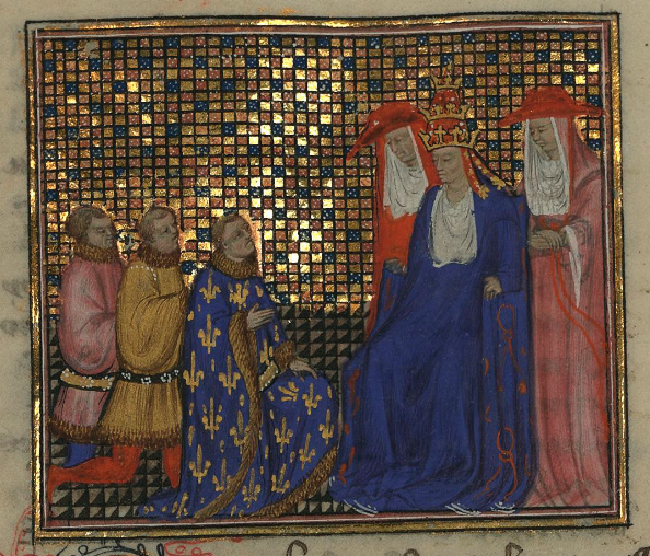 interview between the duke of Anjou with pope Clement VII at Avignon (1379). Flanked by two cardinals in their red hats, antipope Clement VII, crowned with the papal tiara (triple crown or diadem), sits on a throne decked with a blue cloth embroidered with red tassels, an attribute of cardinals. He is receiving duke Louis I of Anjou, the brother of Charles V of France, dressed in a blue houppelande powdered with gold fleurs-de-lys. The pope supported Louis’s accession to the throne of Naples in 1382..